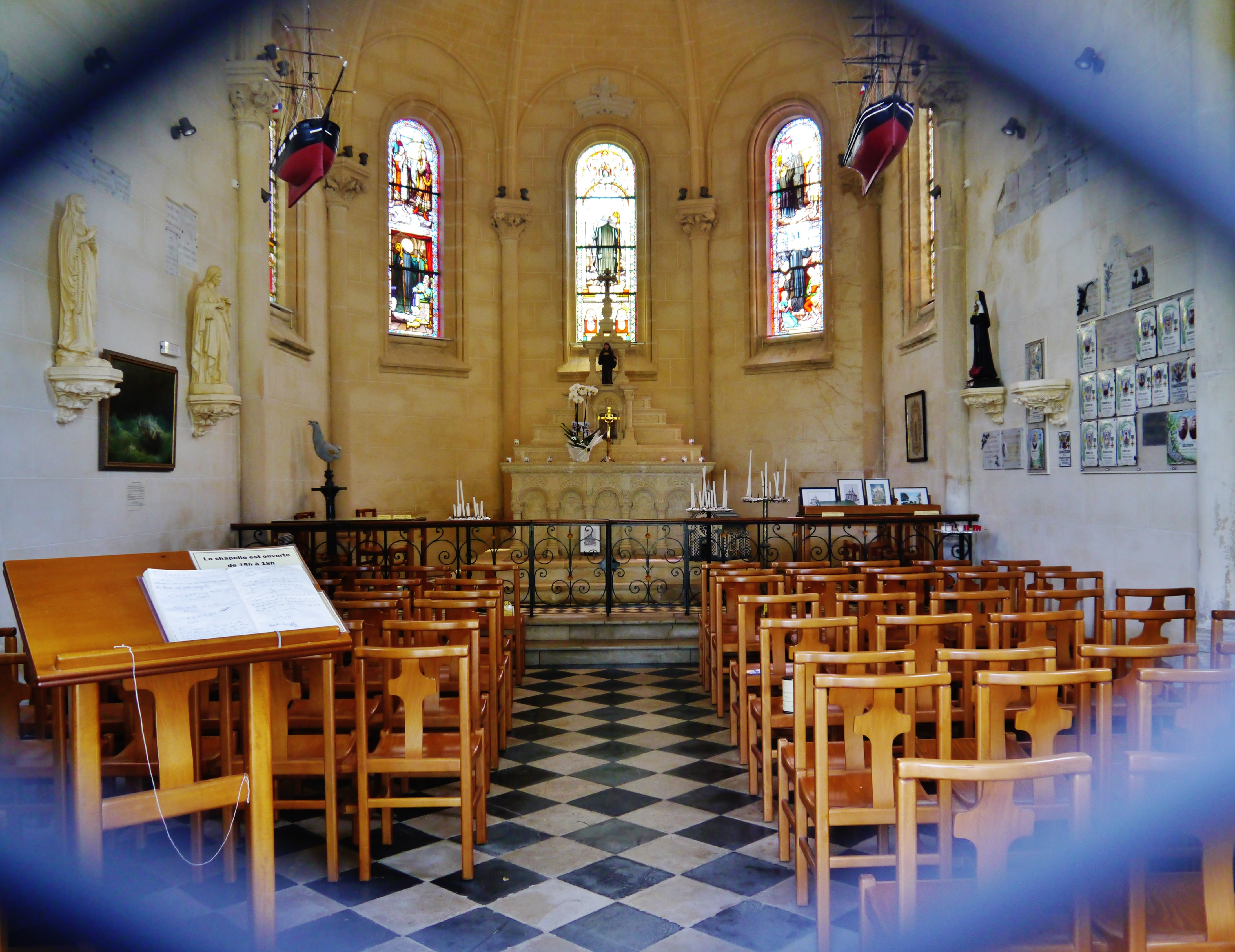 Nave of the Mariner's Chapel, Saint-Valéry-sur-Somme, Department of Somme, Region of Upper France (former Picardy), France